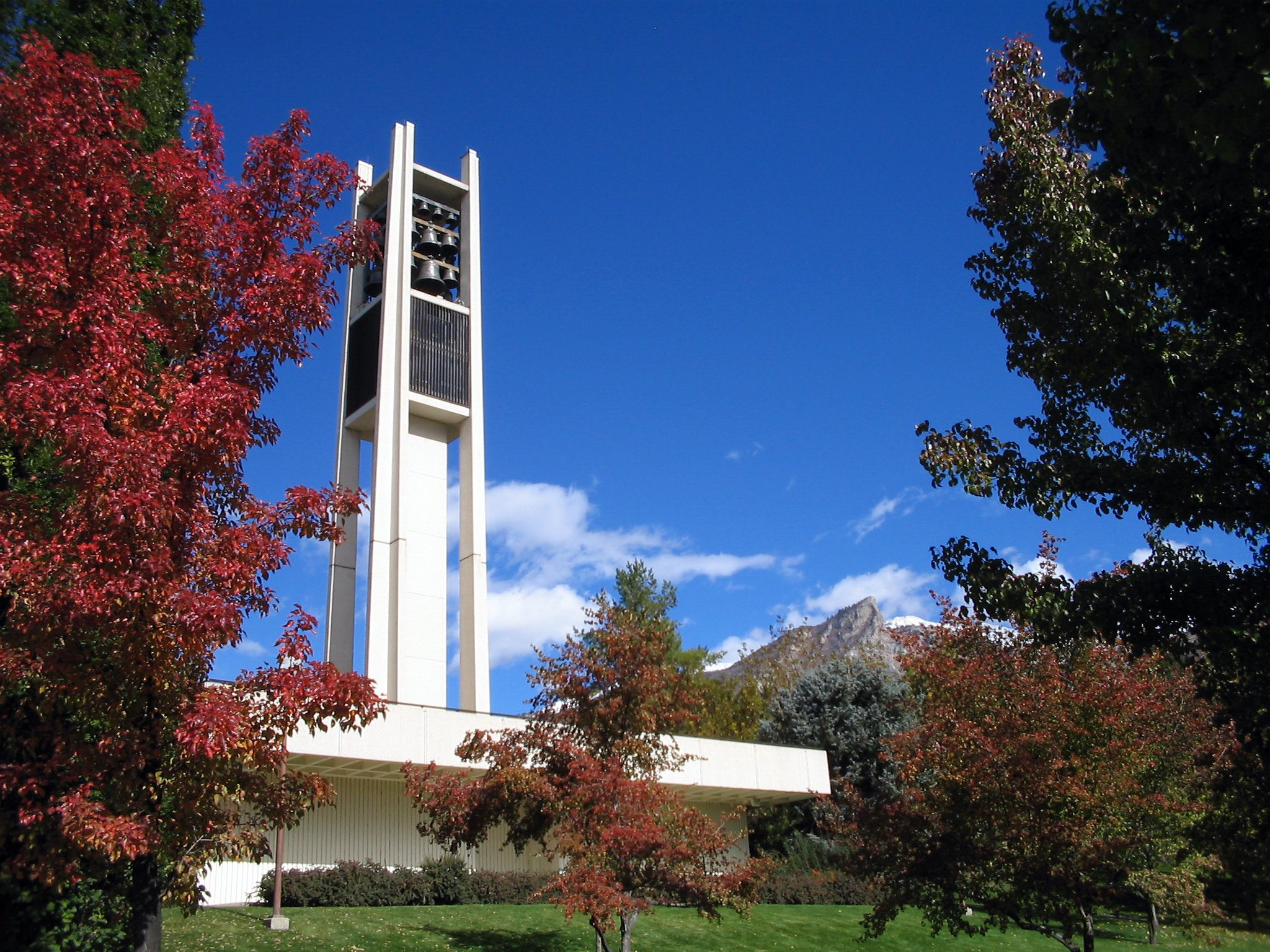 The BYU Carillon stands as one of the landmarks of the BYU Provo campus. Every hour it rings out a tune from the hymn "Come Come Ye Saints." Photo was taken October 2006 on a Canon Powershot A310 with image adjustments done on Picassa.